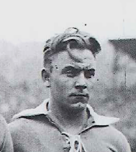 Finnish international player Nuutti Lintamo. Cropped from File:FIN-NationalFootballTeam1933.png